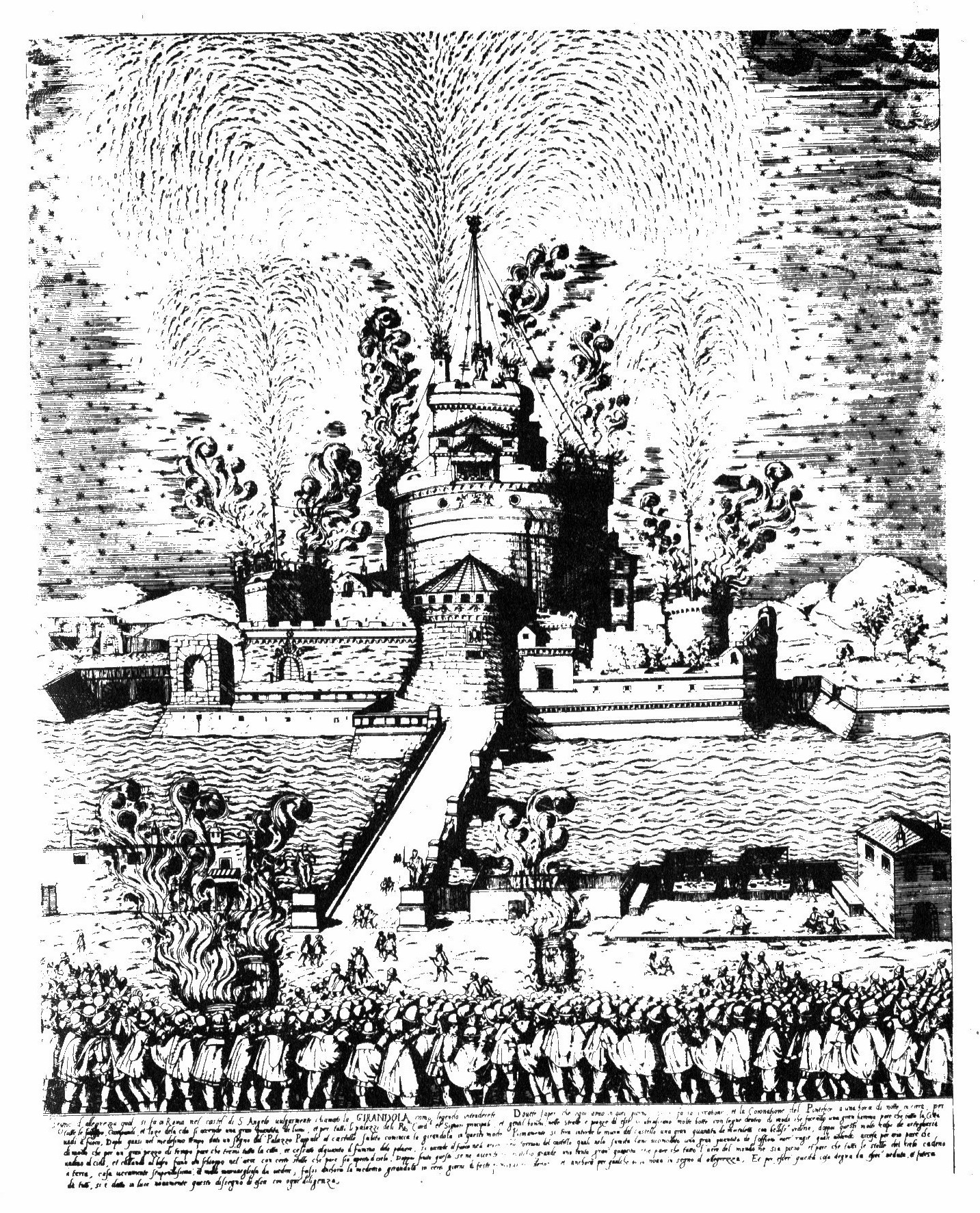 Artificial fires on Castel Sant'Angelo on Jubileum in 1600